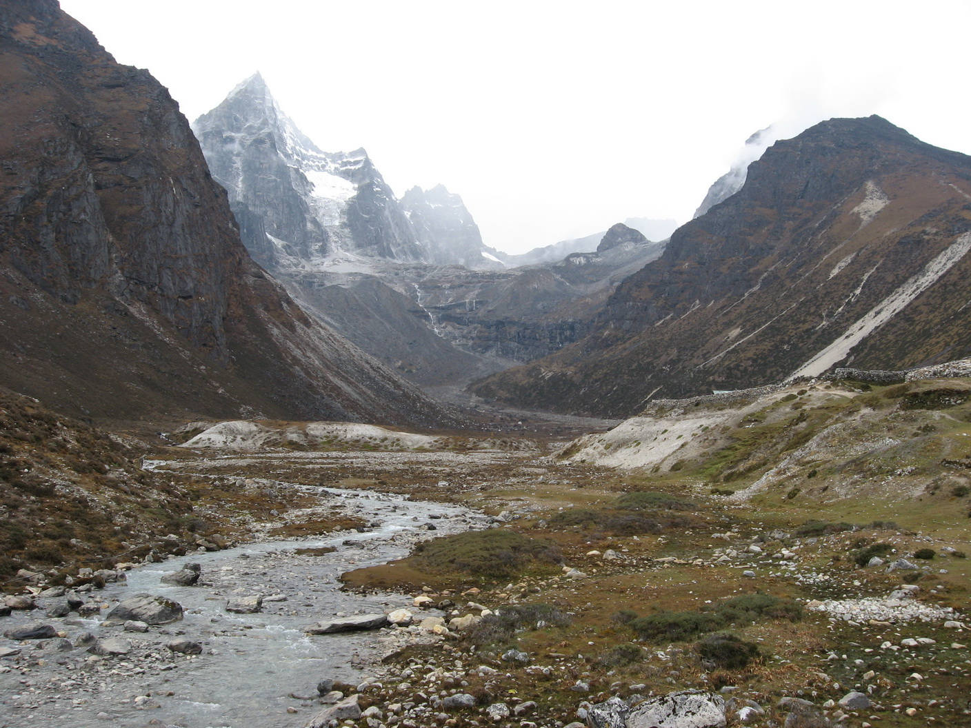 Macchermo river and Machhermo glacier.